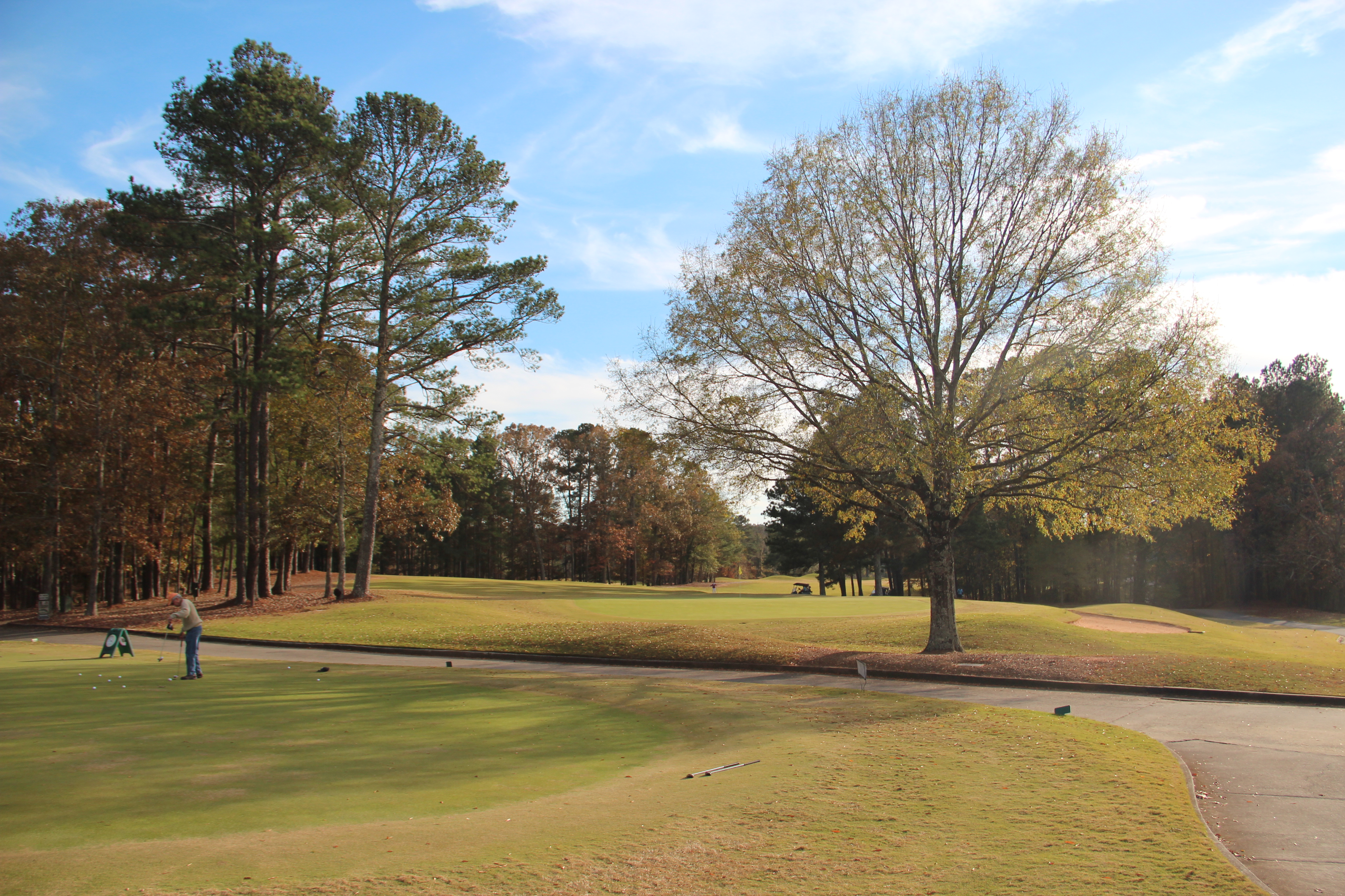 RiverPines Golf, Johns Creek, GA